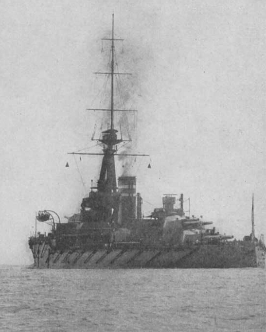 HMS Conqueror in the Solent in 1914.